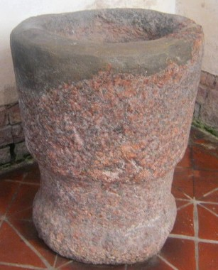 The Romanesque font in porch of StMary's church in Gryfice (Poland)